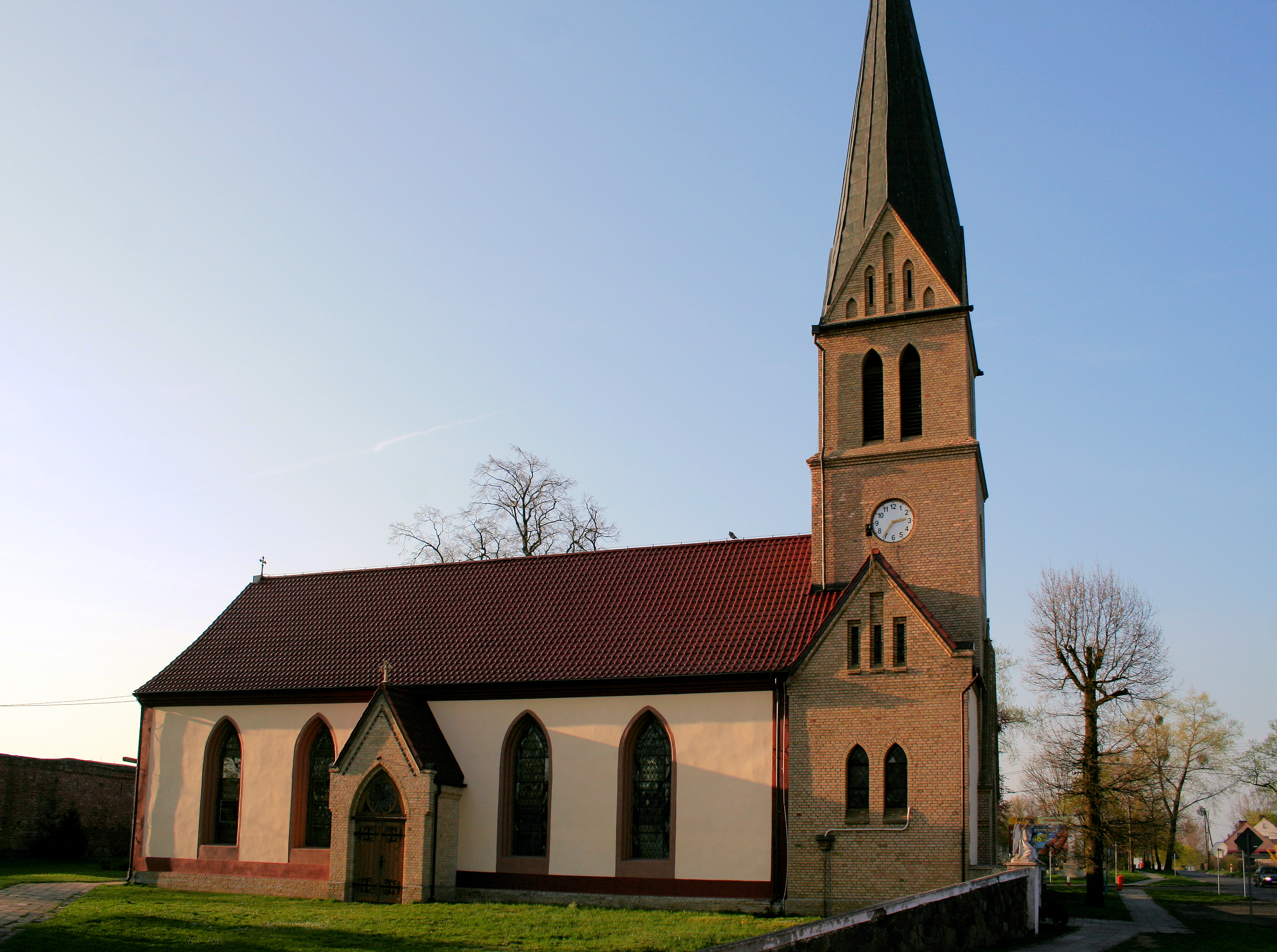 Church in Sarbinowo (West Pomerania)